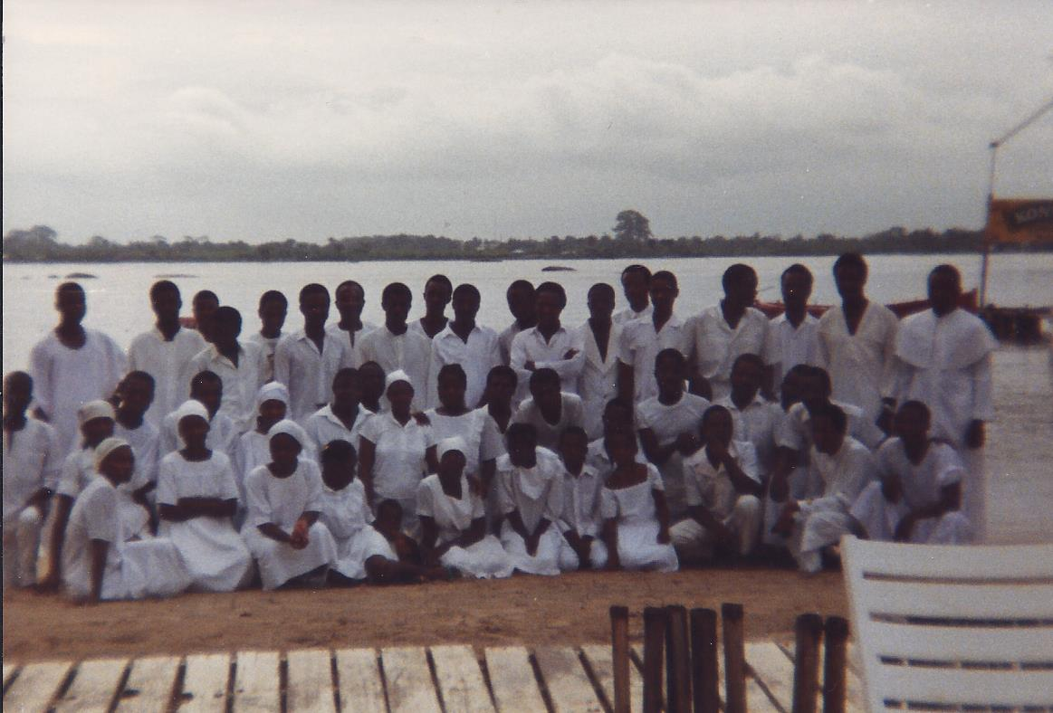 First baptisms